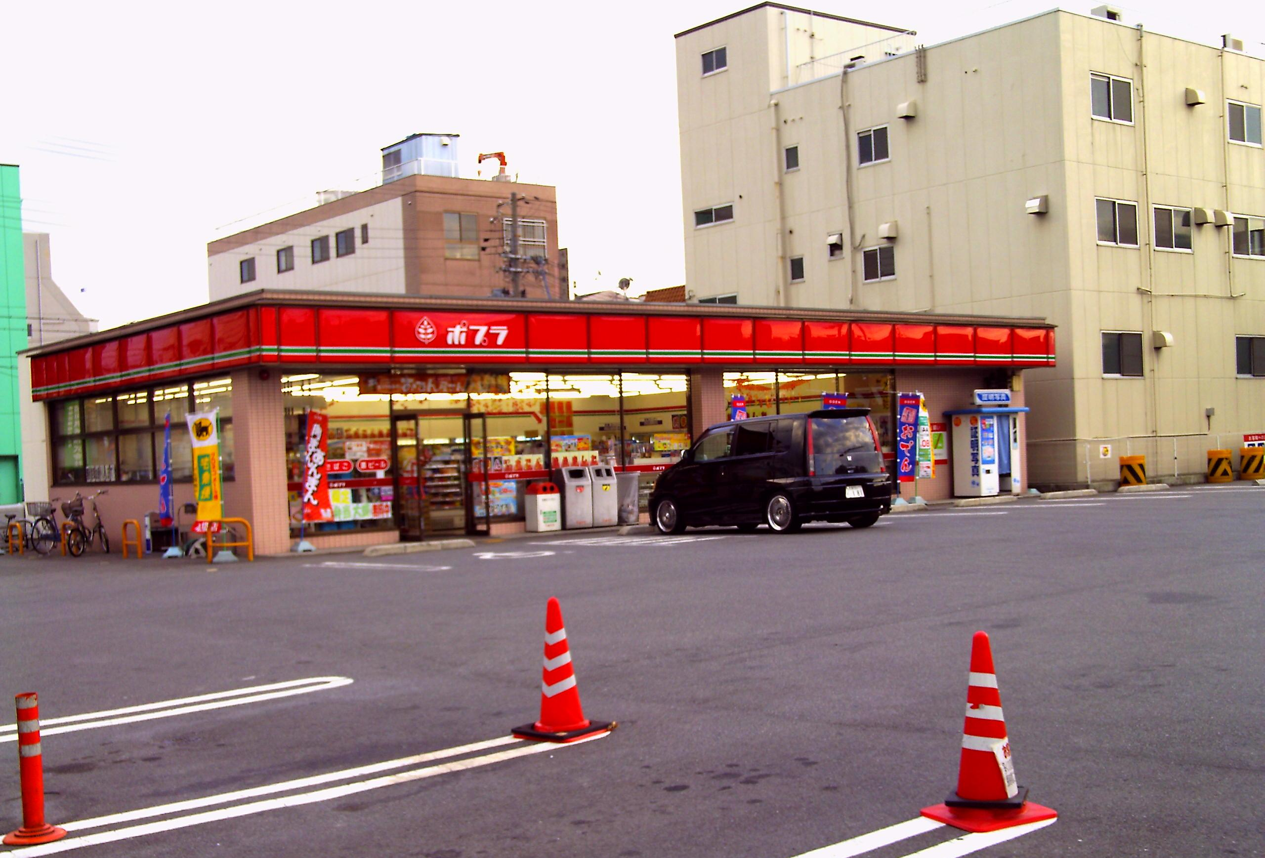 Poplar convenience store at Nagata-Higashi 5-chome in Higashi-Osaka